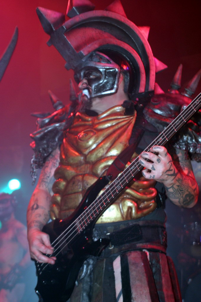 Beefcake the Mighty of GWAR Live in Concert